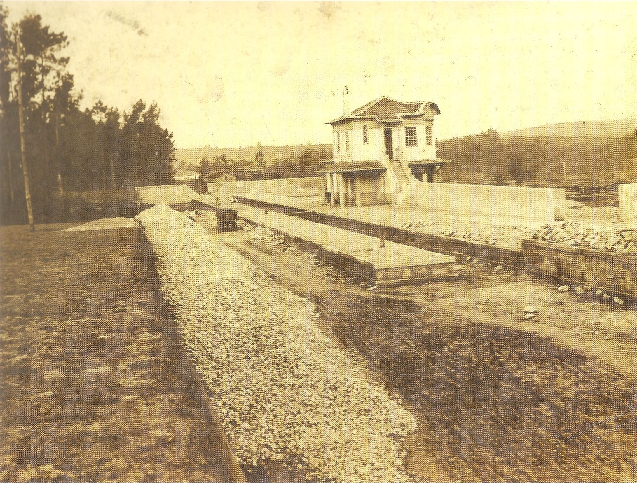 Castelo Maia Railway Station under construction. It was part of the Guimarães Railway, in northern Portugal.